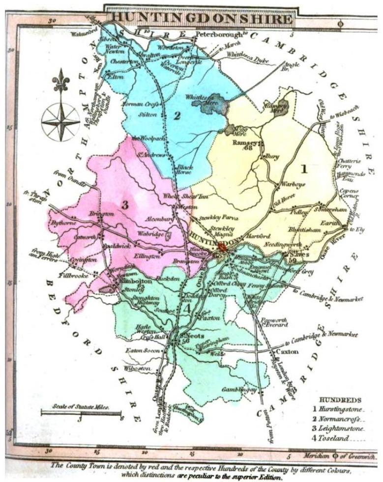 Huntingdonshire